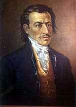 Source: Downloaded from